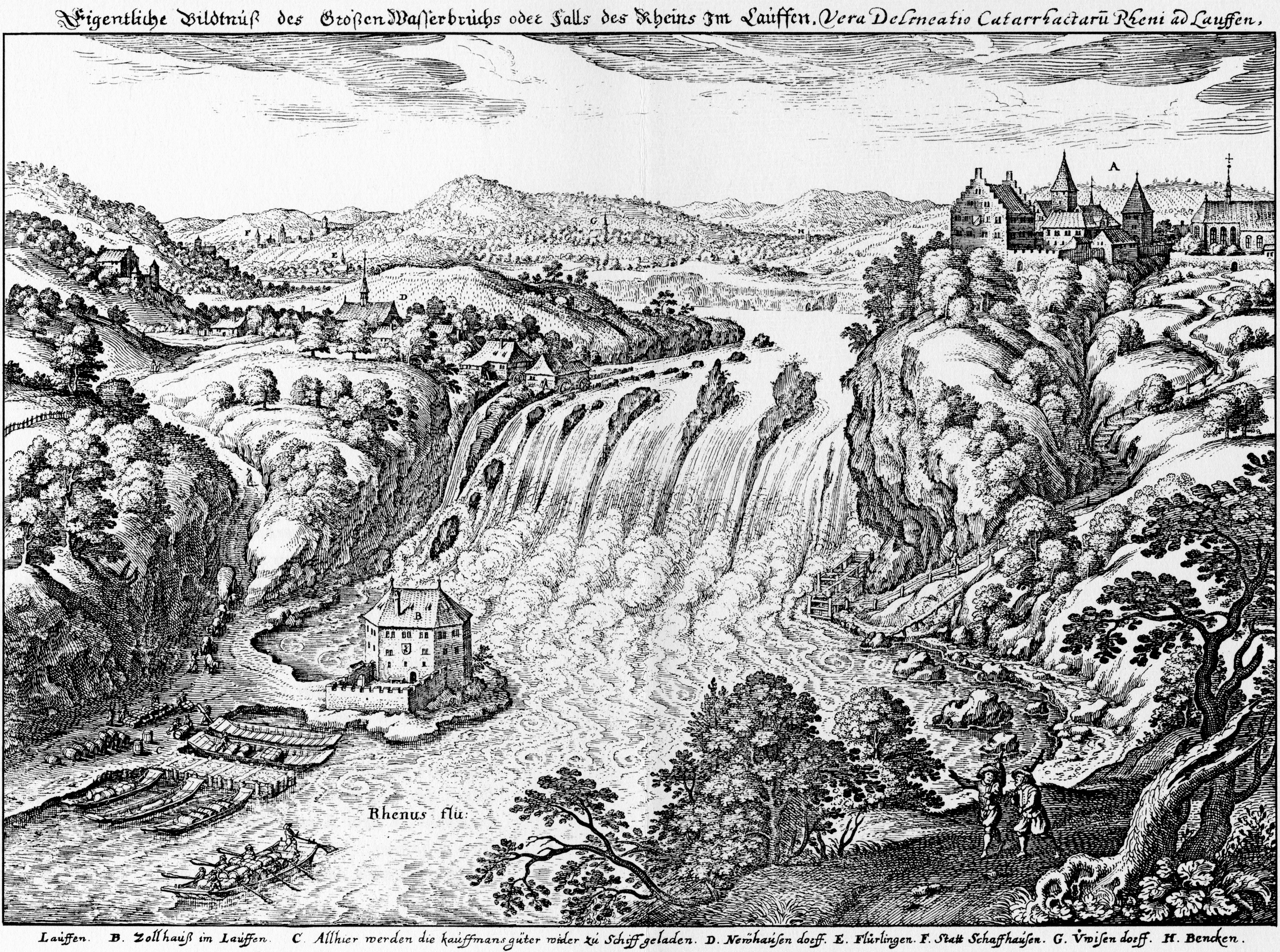 The Rhine Falls near Schaffhausen app. 1642